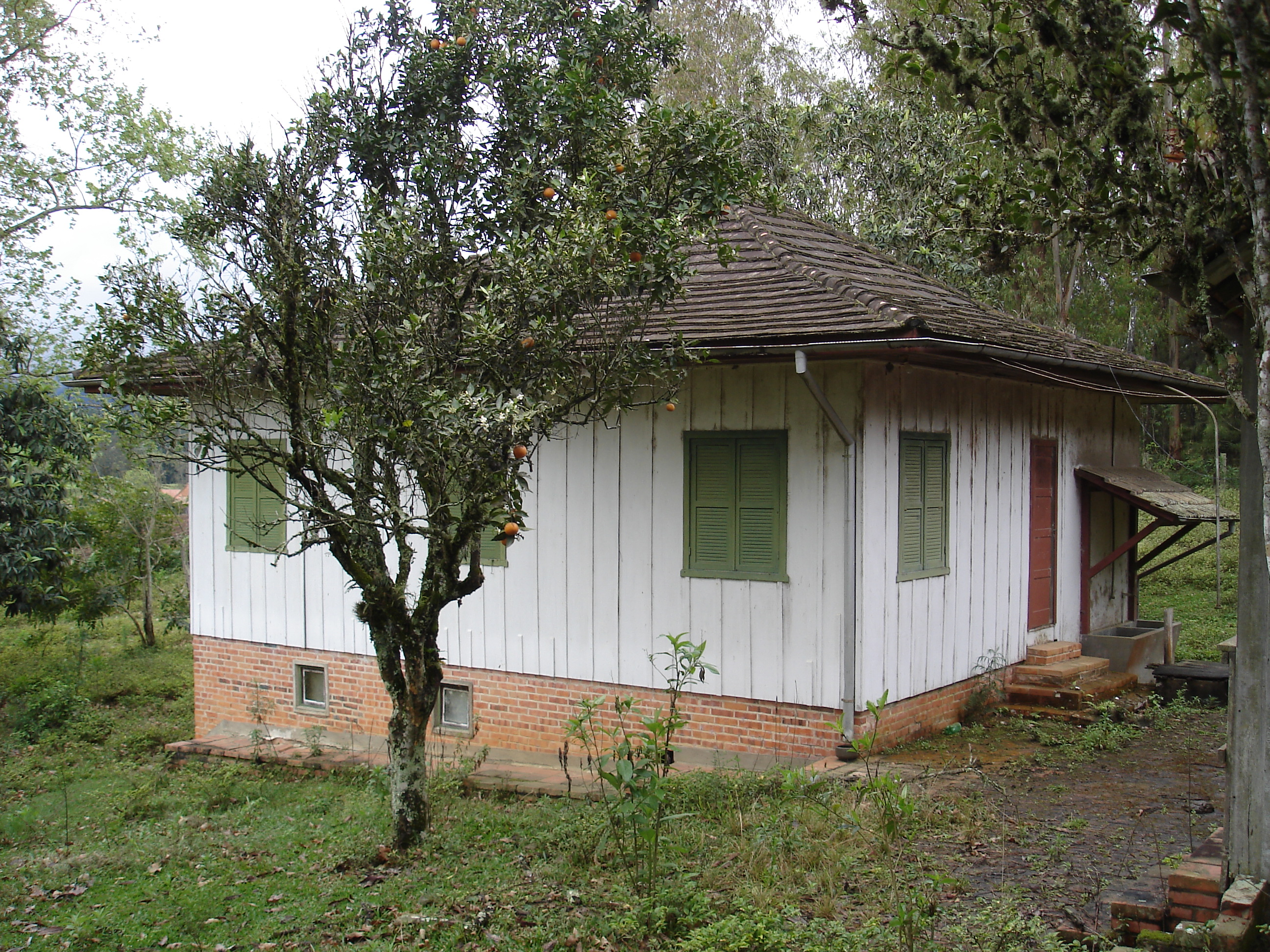 House of Hungarian physician, writer and translator Alexander Lenard in Dona Emma, Brazil